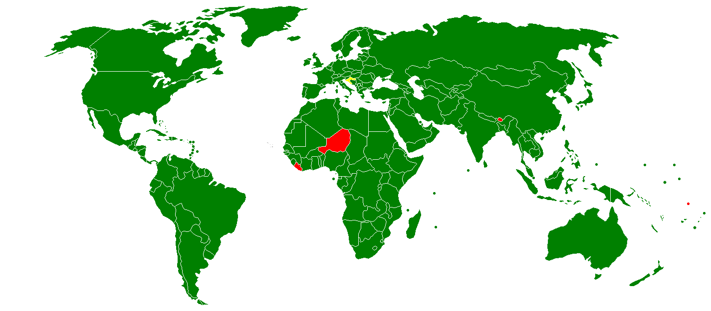 International recognition of Croatia Croatia Countries that have recognized Croatia Countries that haven't recognized Croatia